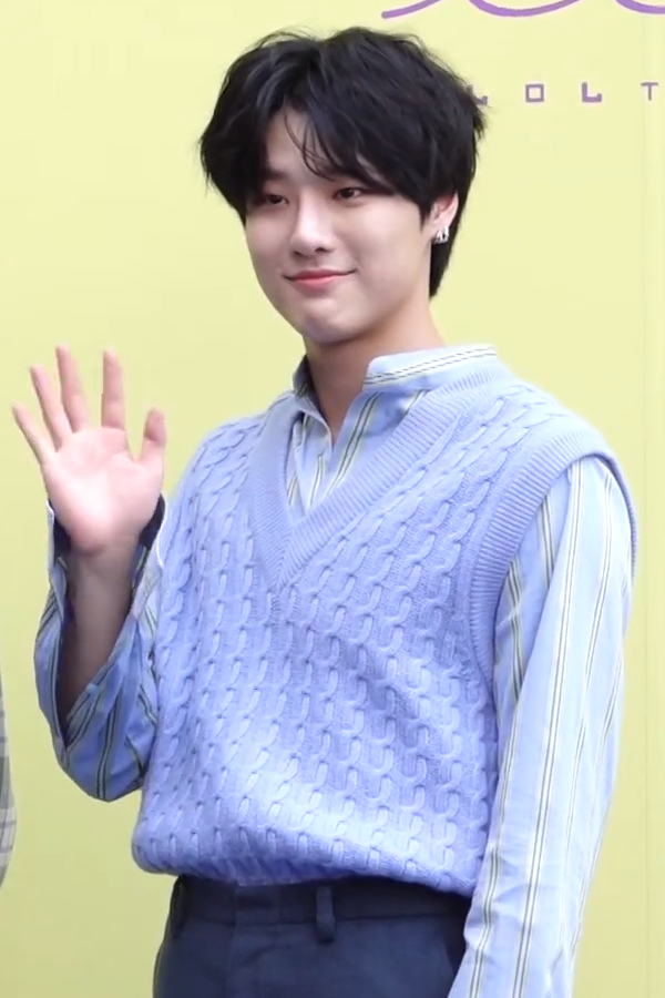 Cho Seung-youn attending Seoul Fashion Week S/S 2020 on October 18, 2019.